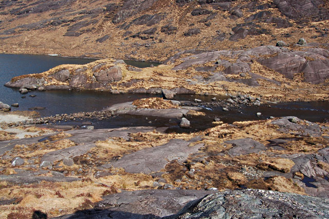 Stepping stones across the Scavaig River The stones give access from the landing stage at Loch na Cuilce to the north side of Loch Coruisk, the path to Camas Fionnairigh and the path to Sligachan. They can often be crossed dryshod, as today. At other times they can be under six feet of torrent.